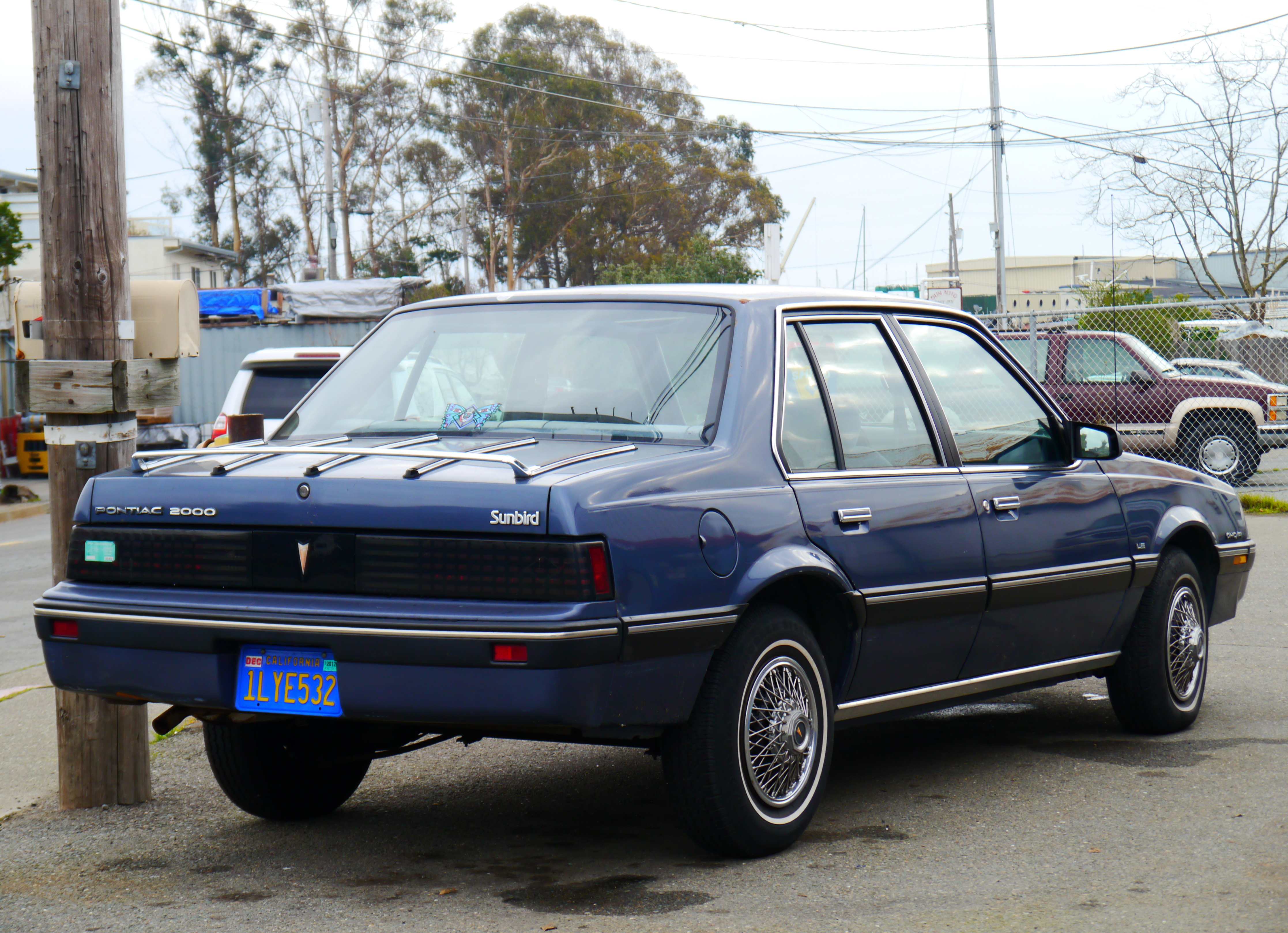 1984 Pontiac 2000 Sunbird LE. 4-cylinder 1.8L OHC/FI engine (110 kW; 150 bhp) - This engine was popular, and more powerful than many V6 engines in competing brands.